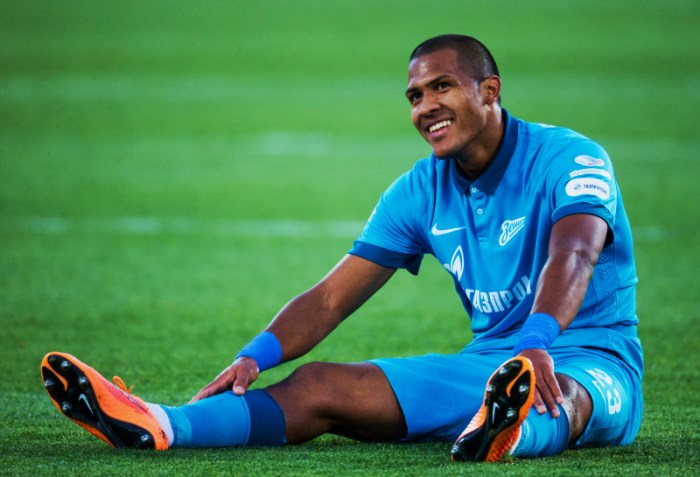 José Salomón Rondón